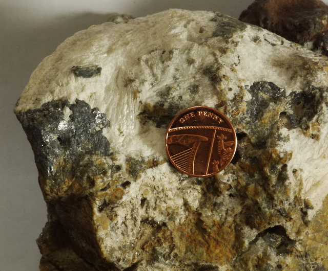 A piece of ore found on the spoil heaps of Greenside Lead Mine, Glenridding, containing barite, galena and quartz